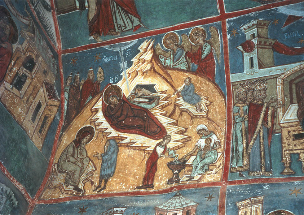 Interior of the church. Virgin Mary with child Jesus. In the left bottom the devil tempts st. Joseph in doubts about the origin of the child.